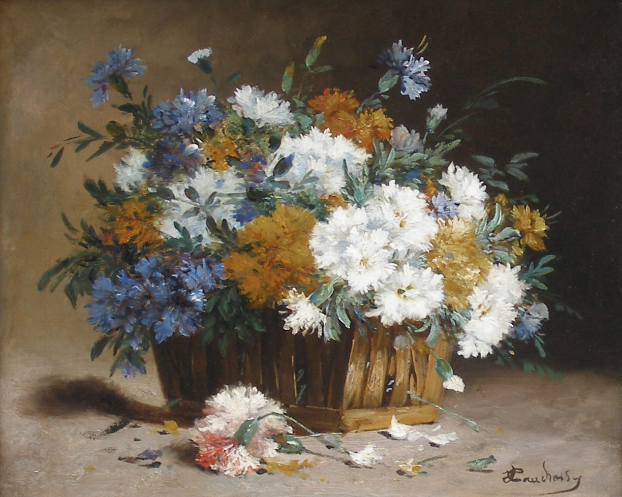 White and blue cornflowers